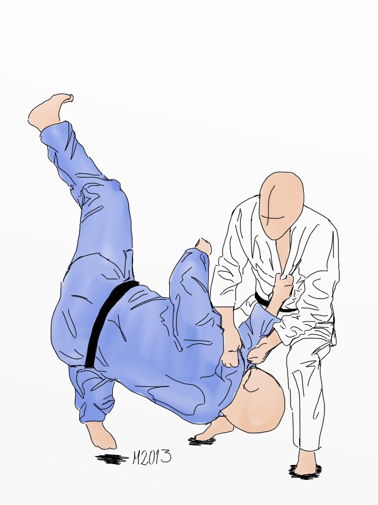 Illustration of the judo throw uki-otoshi, or floating-drop a technique where you throw your opponent to their front using your hands only.